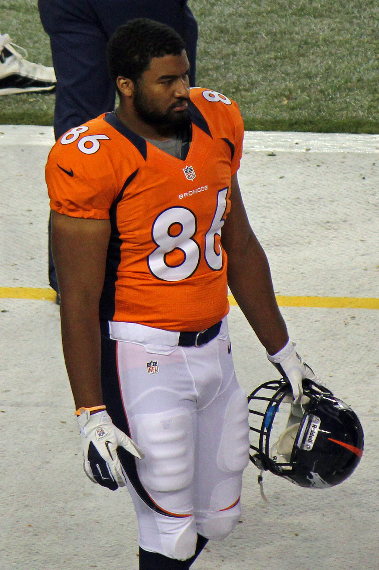 Anthony Miller, a player on the National Football League.